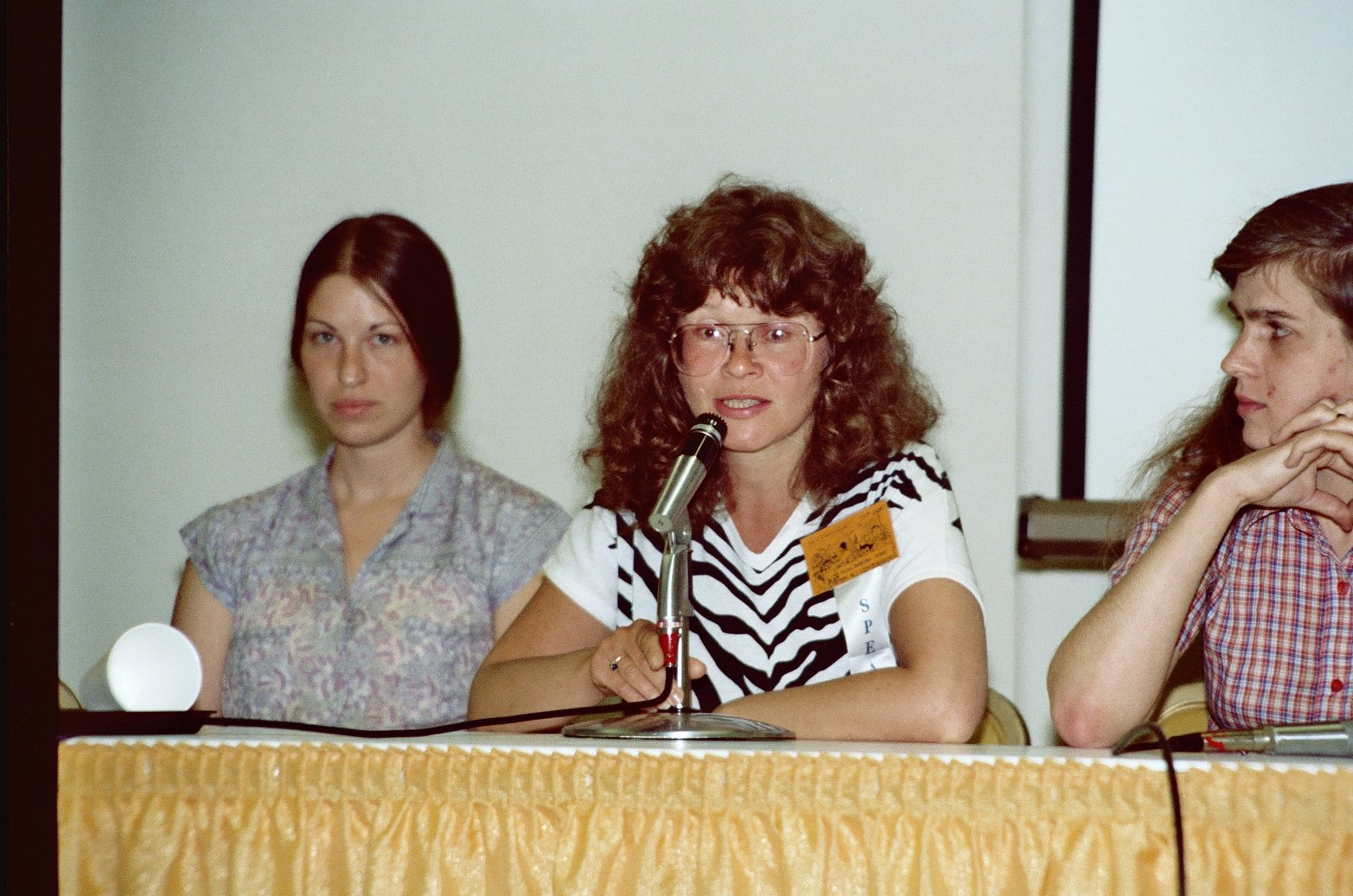 Jan Duursema, Trina Robbins and Carol Kalish at the Women In Comics panel at the 1982 San Diego Comic Con (today called Comic-Con International).